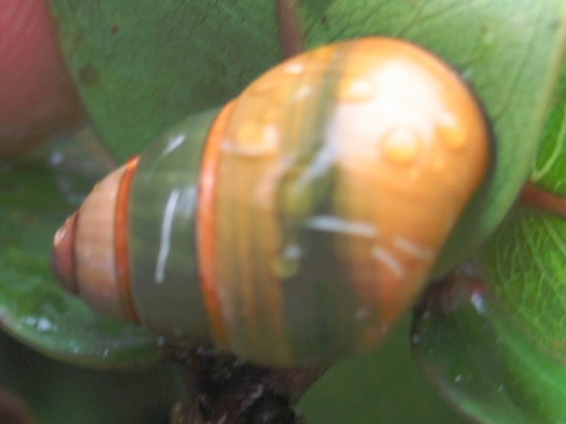 Achatinella lila from from Hawaii.